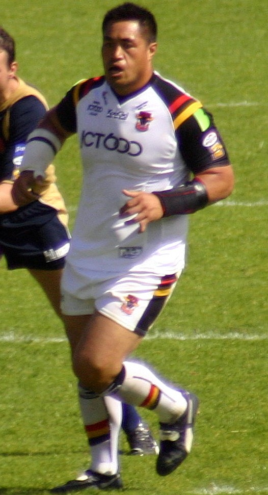 Joe Vagana